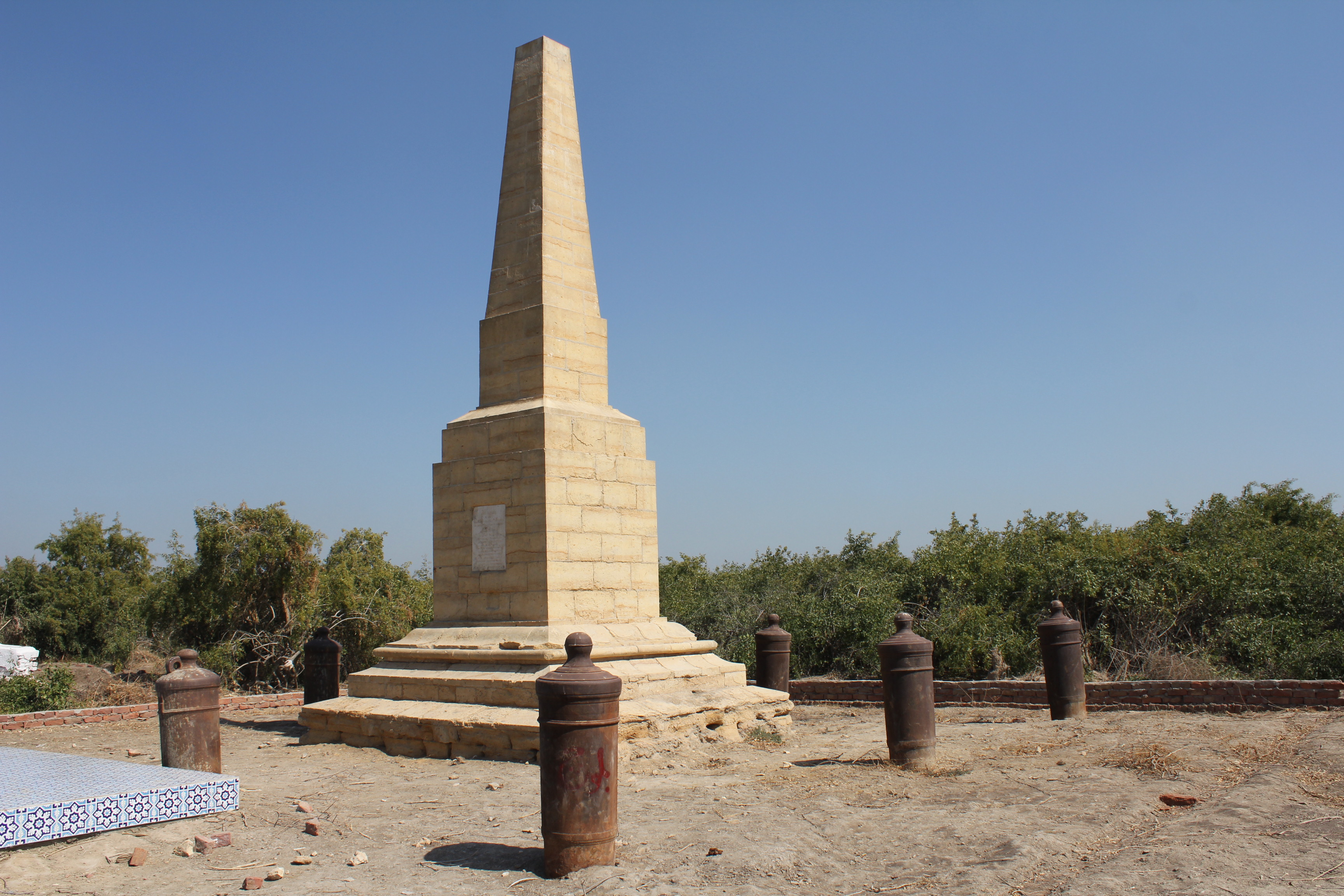 Battle ground of Dubo This is a photo of a monument in Pakistan identified as the SD-30